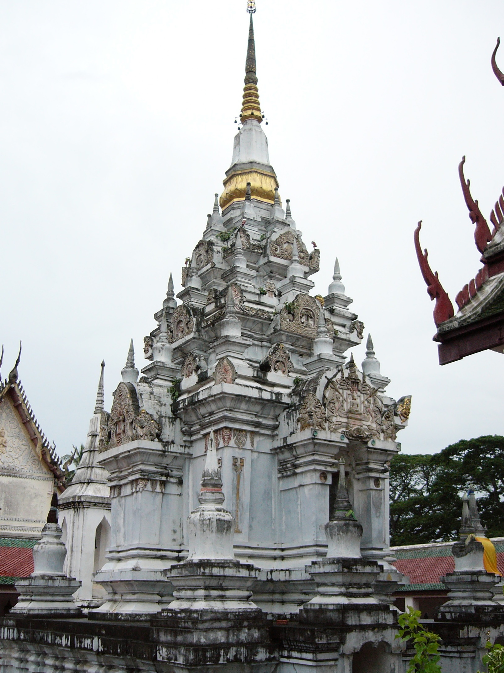 Phra Borom That Chaiya, a Sri-Vijaya-style Chedi at Wat Phra Borom That Chaiya, Amphoe Chaiya, Surat Thani Province, Thailand.